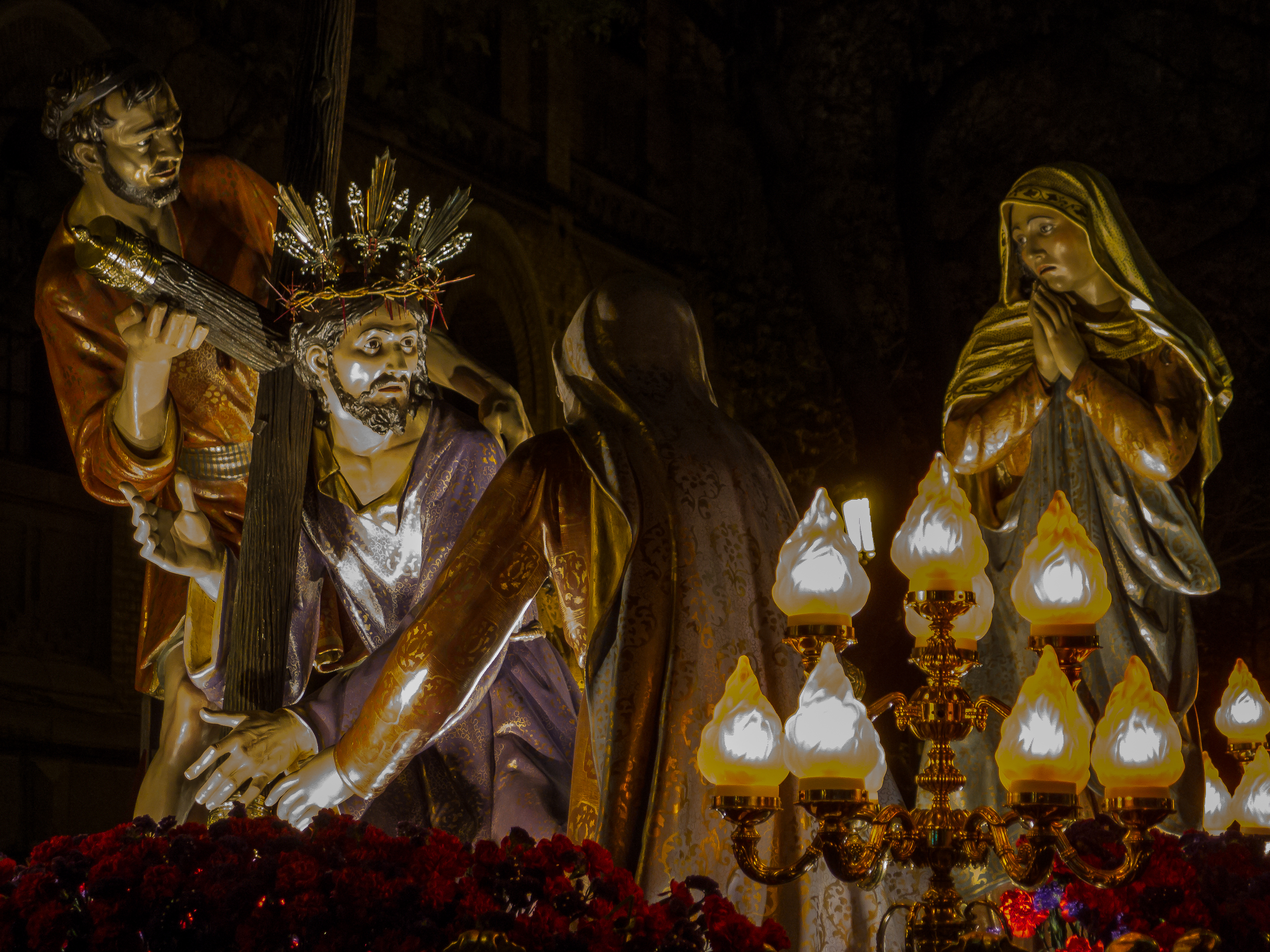 OLYMPUS DIGITAL CAMERA This is a photography of a Folklore festival in Spain (Wikidata id Q9075892).